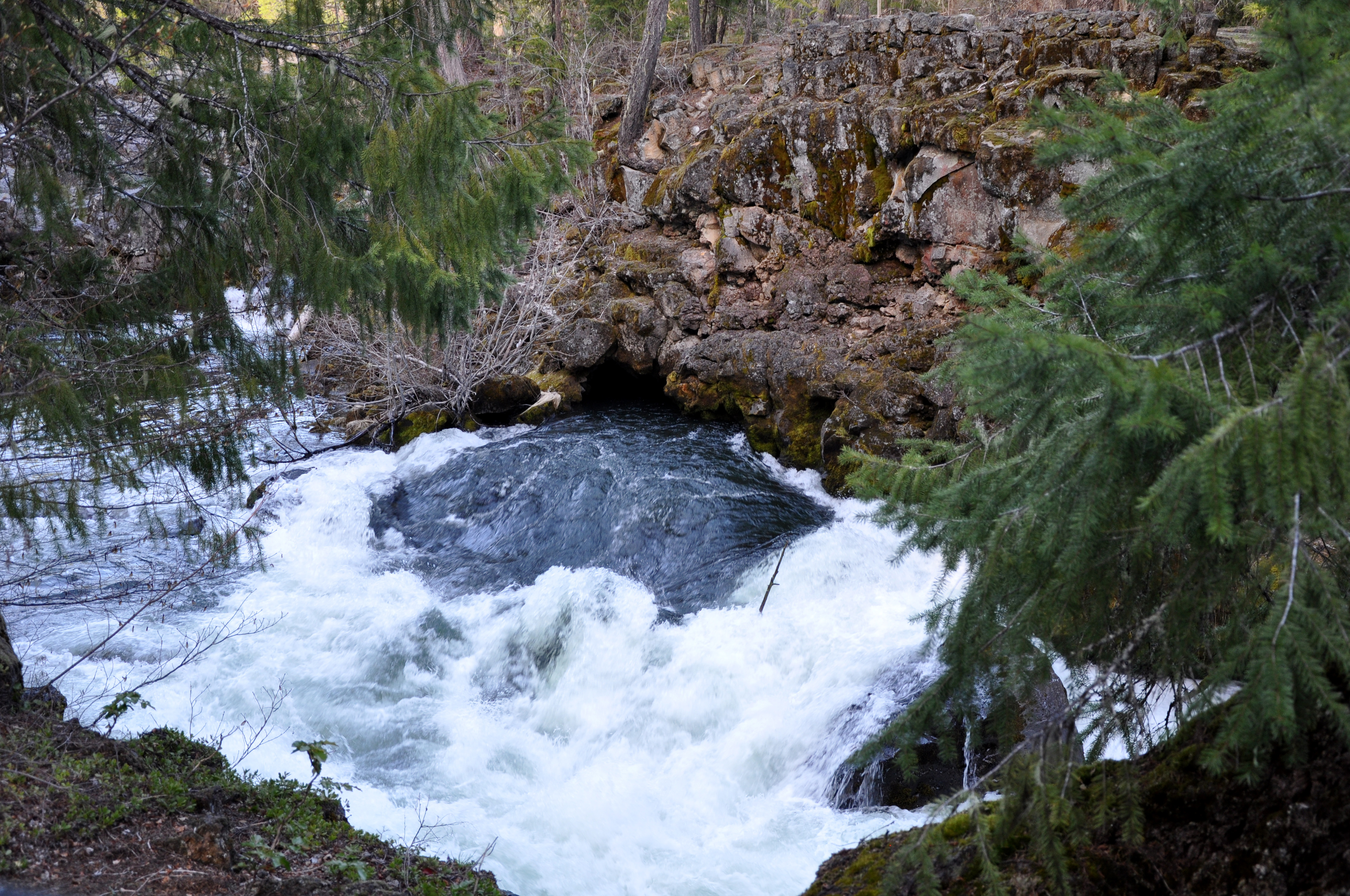 The Rogue River flows for about 250 feet (76 m) through a lava tube at Natural Bridge downstream of Union Creek in the U.S. state of Oregon. The upwelling of water in this photo is where most of the river re-emerges.